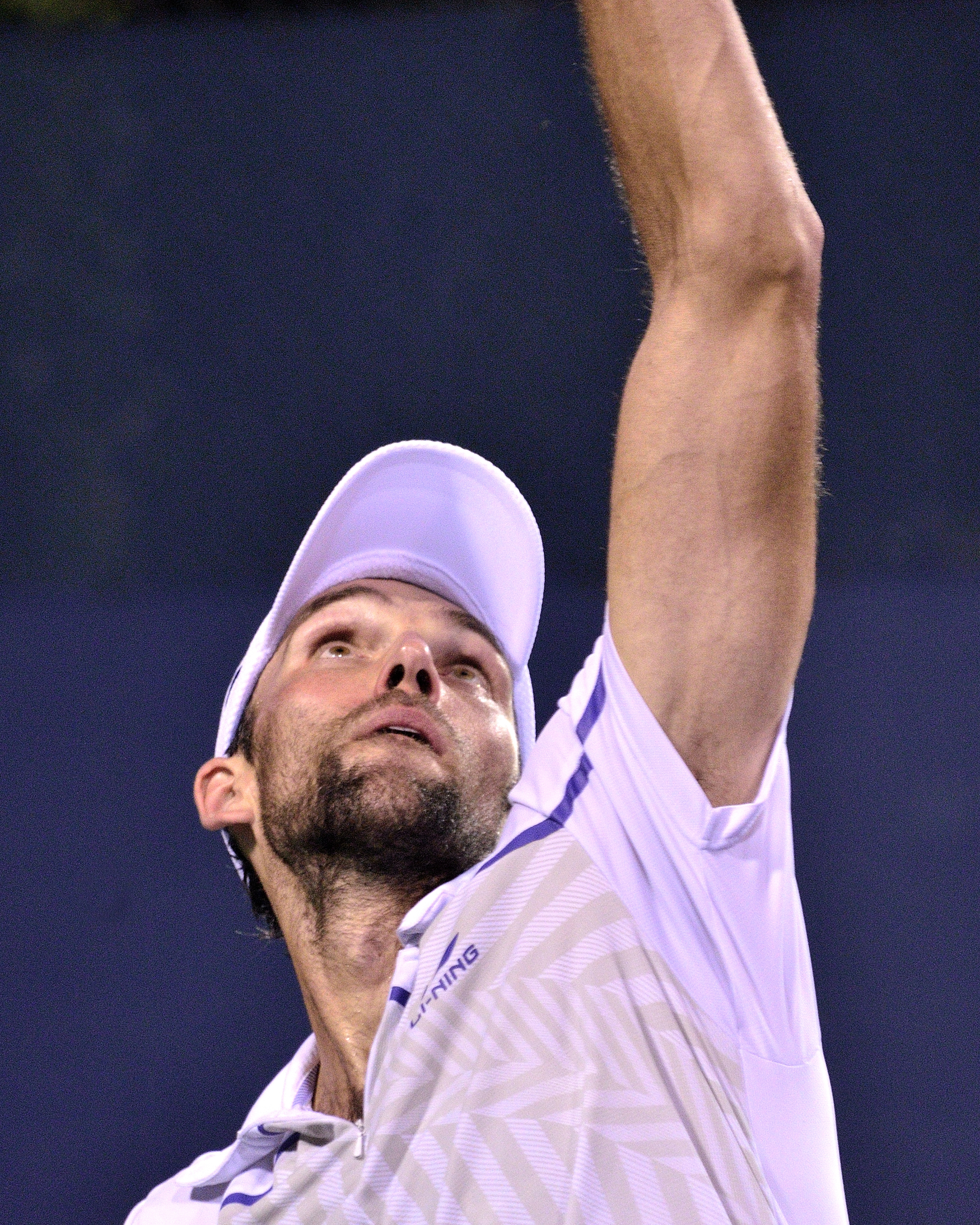 Queens, NY August 30, 2013 Stanislas Wawrinka (SUI) def. Ivo Karlovic (CRO) Court 11